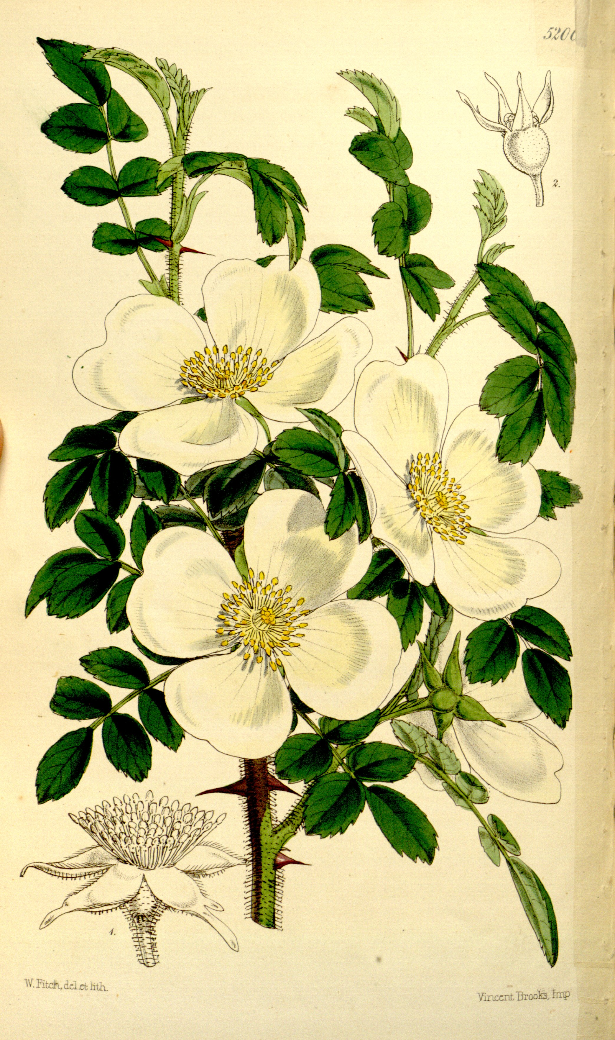 Rosa sericea subsp. sericea